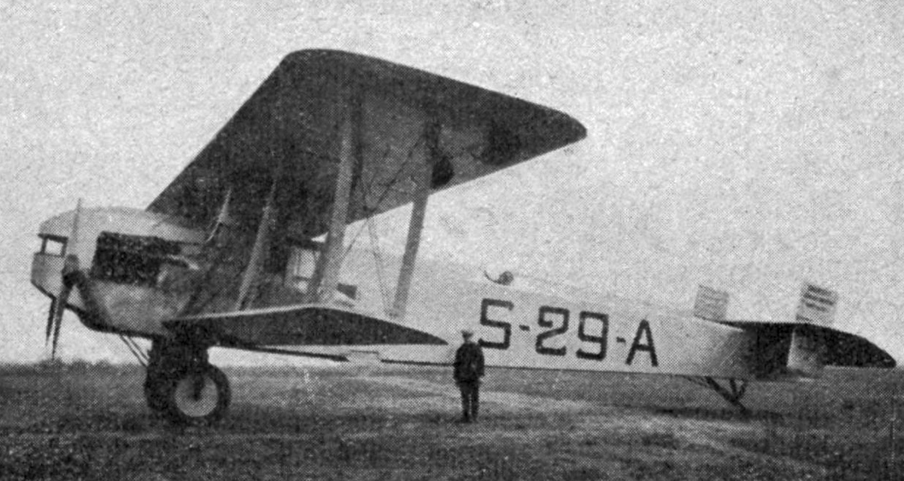 Sikorsky S-29A photo from L'Aéronautique March,1927